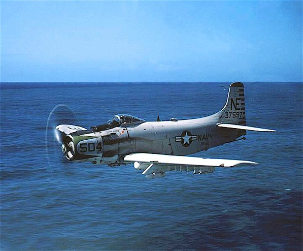 A Douglas AD-6 Skyraider (BuNo 137597) Attack Squadron 65 (VA-65) "Fist of the Fleet" enroute from Naval Air Station (NAS) Alameda to NAS Miramar (both in California, USA), in March 1958. The plane was flown by Lt(jg) Jim Jones. VA-65 was assigned to Carrier Air Group 2 (CVG-2) aboard the aircraft carrier USS Midway (CVA-41) with the next deployment starting on 16 August 1958. VA-65 would be redesignated VA-25 on 1 July 1959. The AD-6 (A-1H) 137597 would later be transferred to the U.S. Air Force, and would be one of the last 19 Skyraiders turned over to the South Vietnamese Air Force (VNAF) by the 1st SOS in November of 1972.